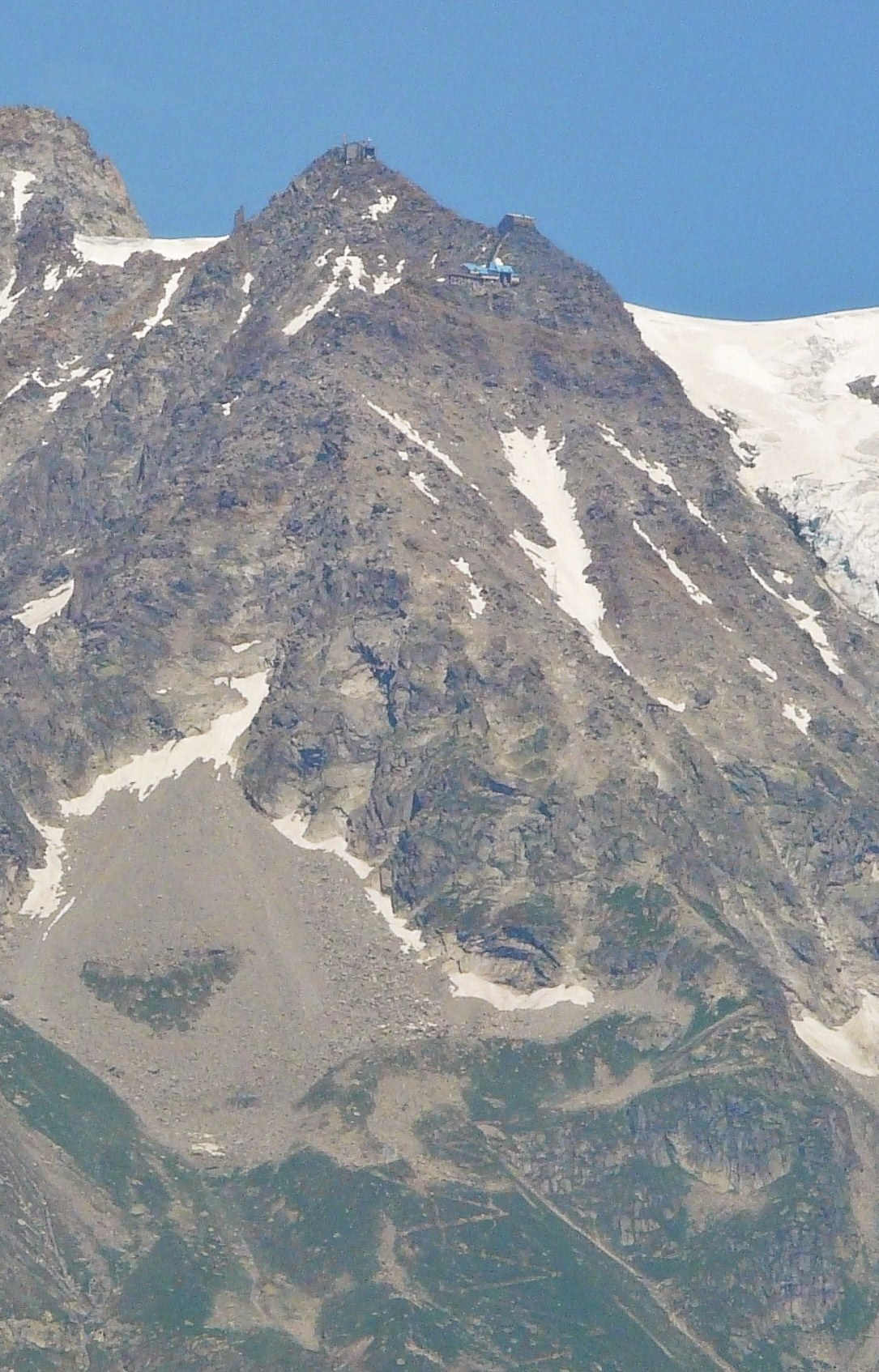 Punta Helbronner (3,462 m) as seen from Pré-Saint Didier in 2009 July.